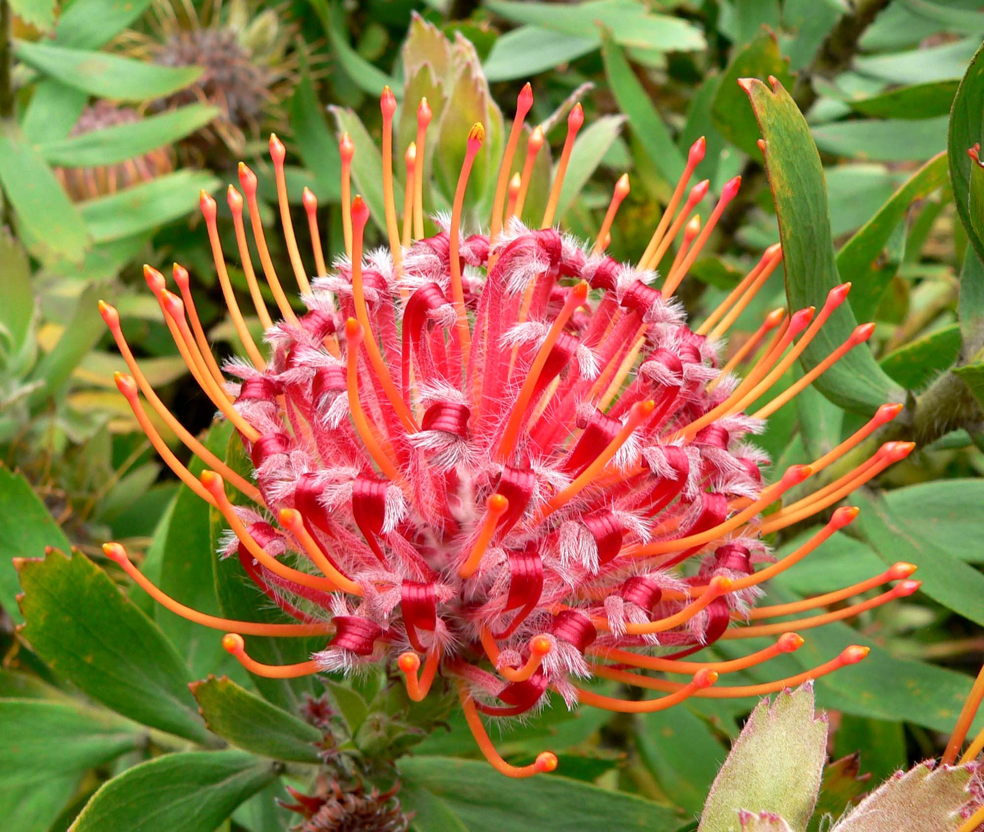 Photo of Leucospermum 'Scarlet Ribbon' at the San Francisco Botanical Garden